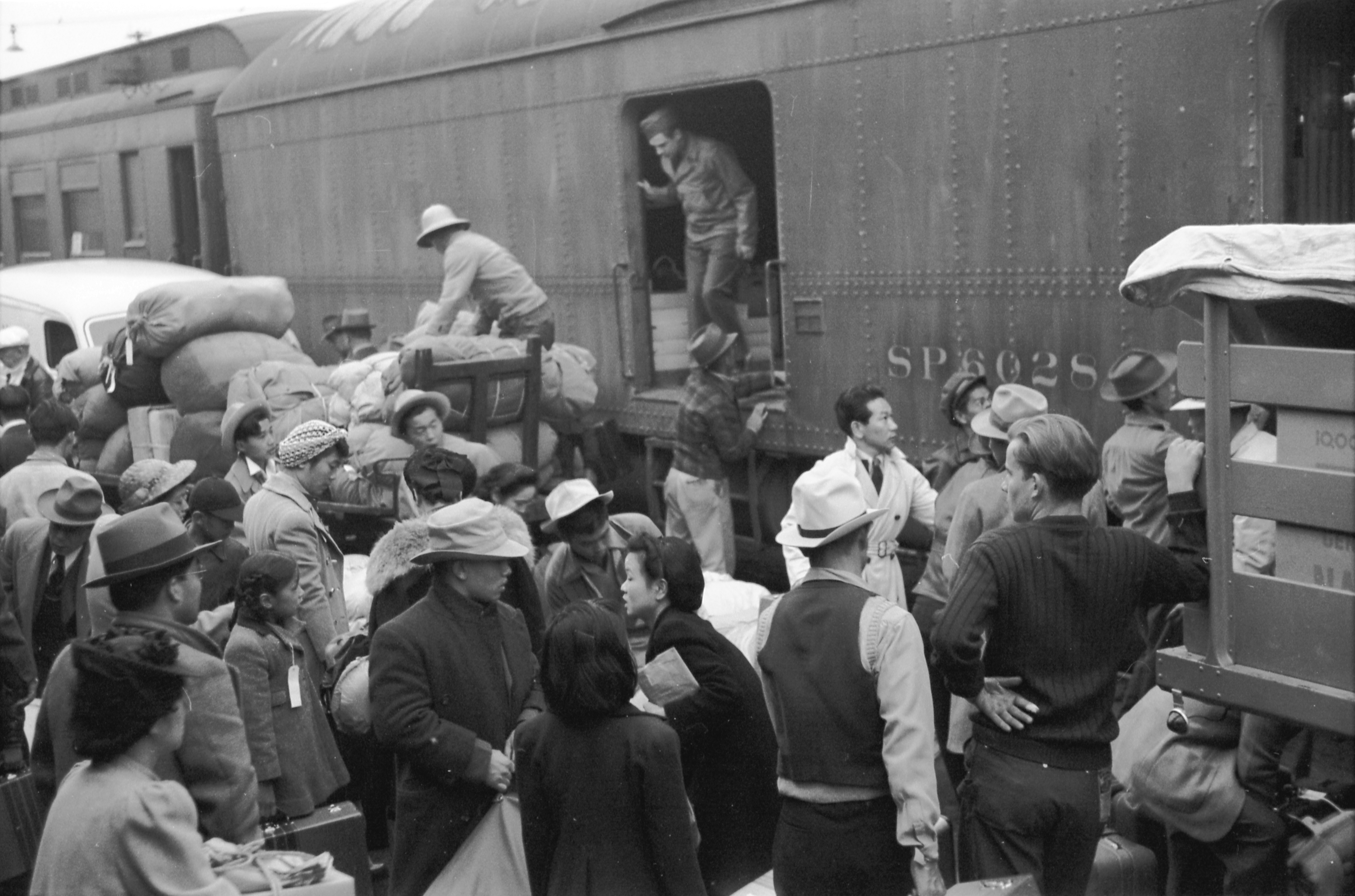 Los Angeles, California. Japanese Americans going to Manzanar gather around a baggage car at the old Santa Fe Station. (April 1942)[59]. Japanese Americans boarding a train bound for one of ten American concentration camps.